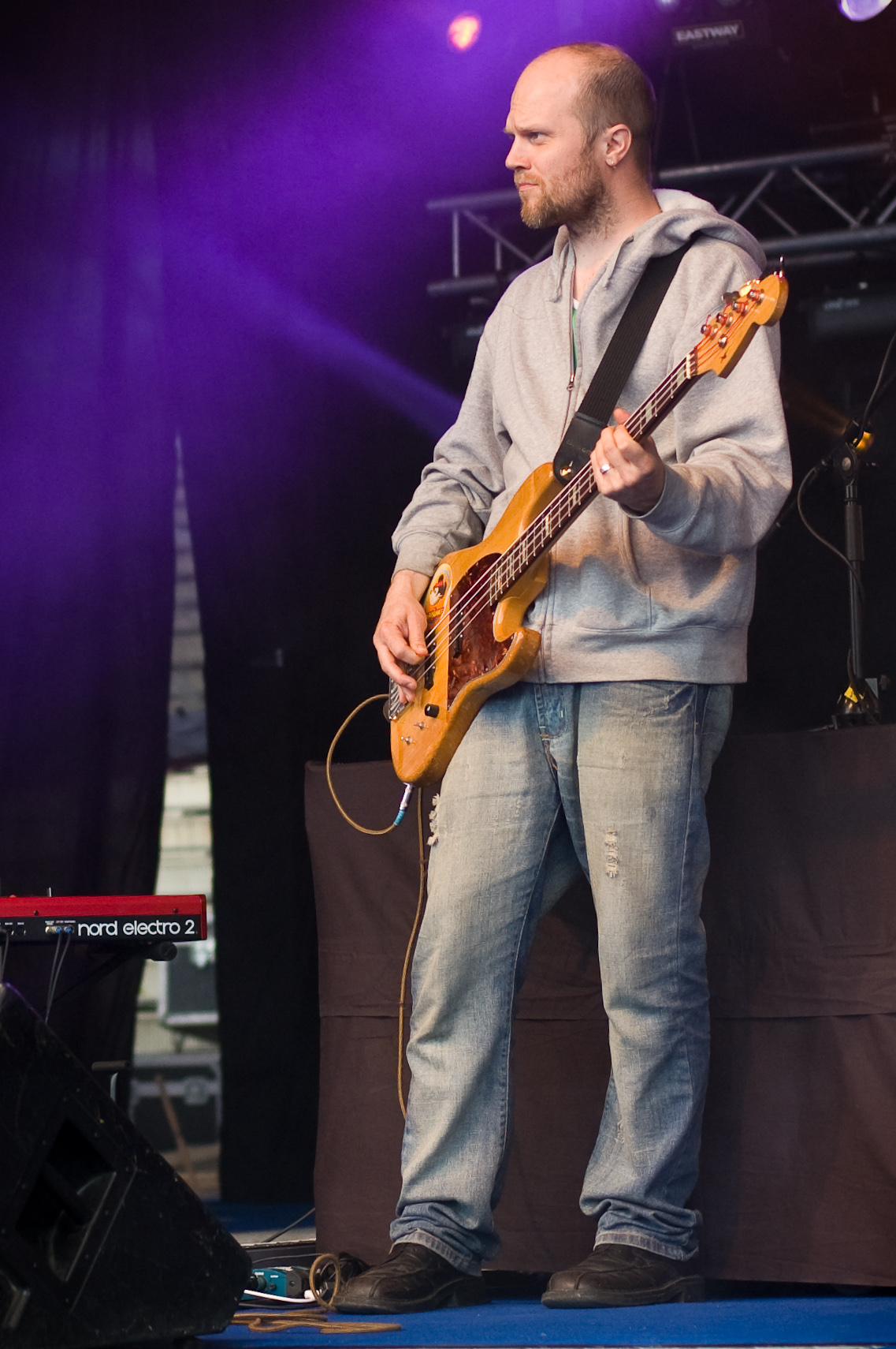 Bassist Anssi Växby of Scandinavian Music Group performing at the Ilosaarirock festival on the 12th of July 2008 in Joensuu, Finland.